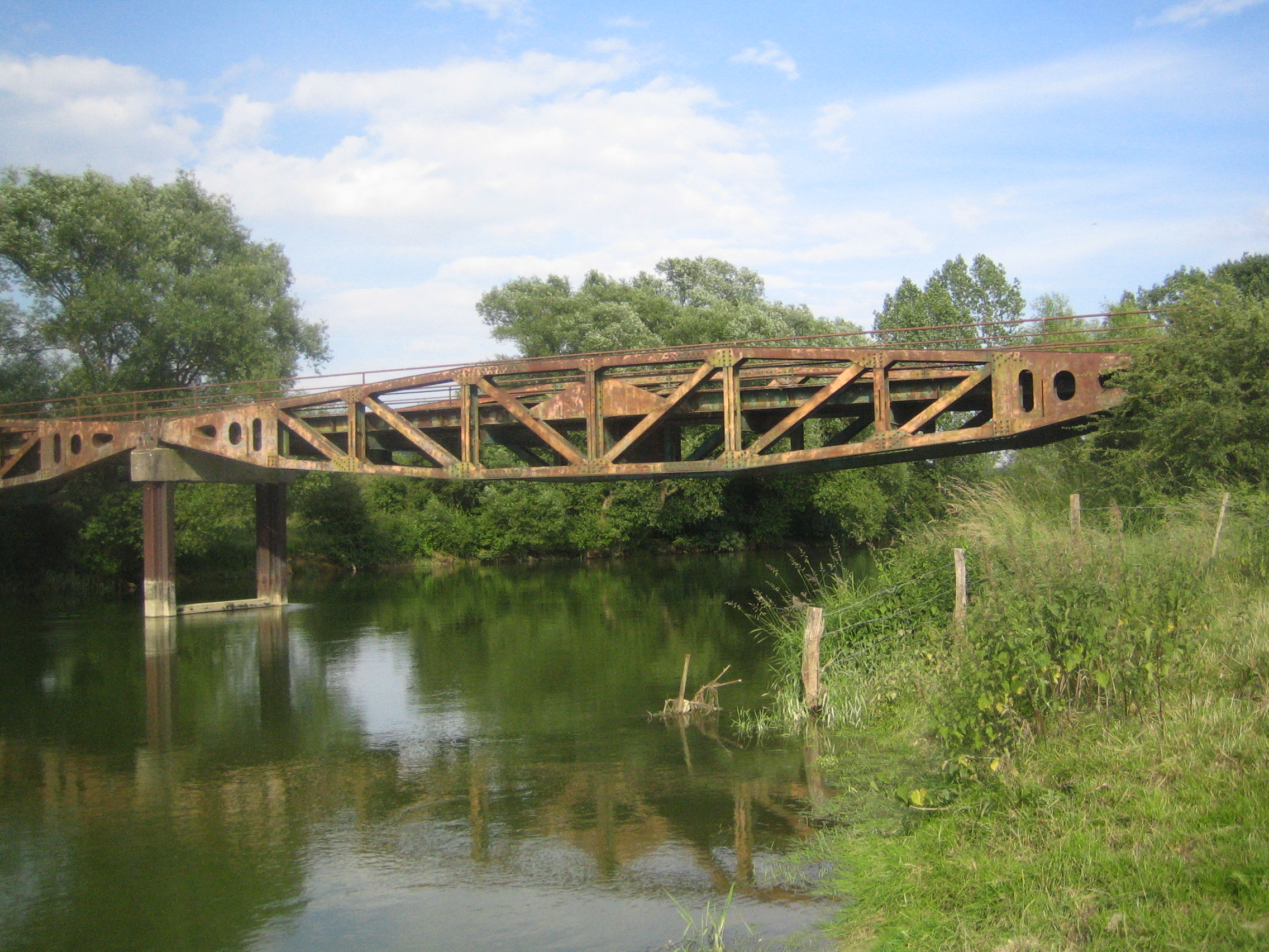 Bridge over river Meuse formed with assembled 'Whale' pier elements. This bridge is located in Vacherauville (Meuse). These piers were the floating roadways that connected the Spud pier heads to the land in a Mulberry harbour, a type of temporary harbour developed in World War II to offload cargo on the beaches during the Allied invasion of Normandy.